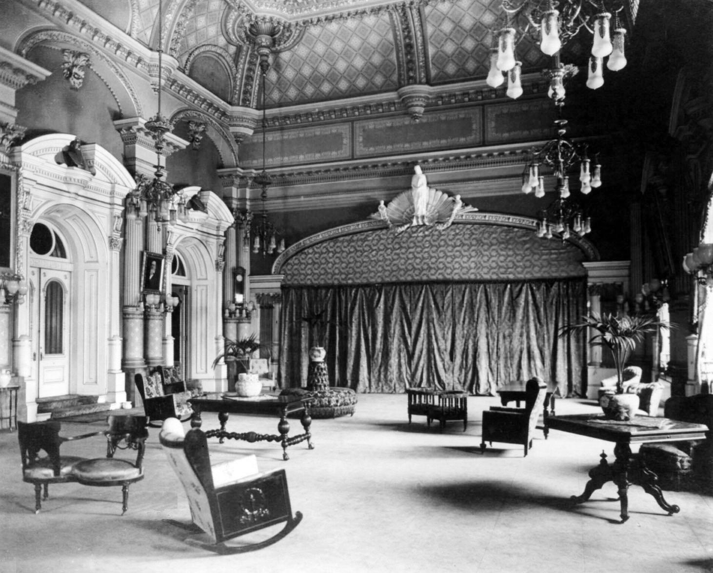 Celestial Room, Salt Lake Temple, Salt Lake City, Utah